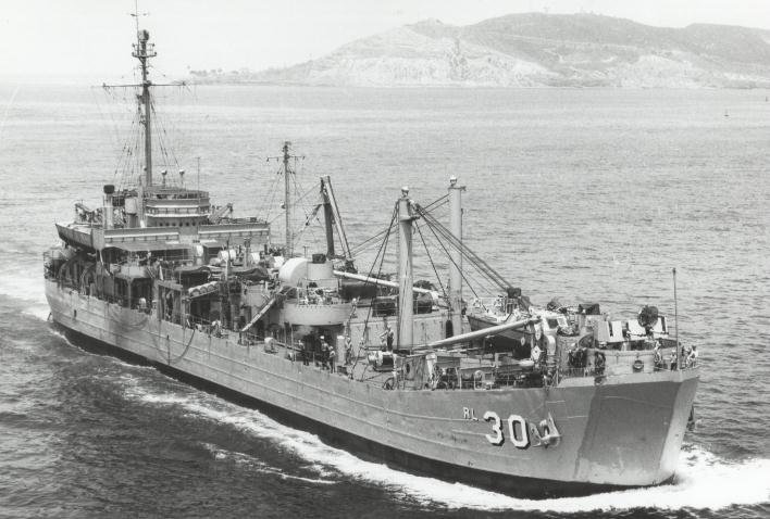 USS Askari (ARL-30) underway off Point Loma, San Diego, CA., date unknown.